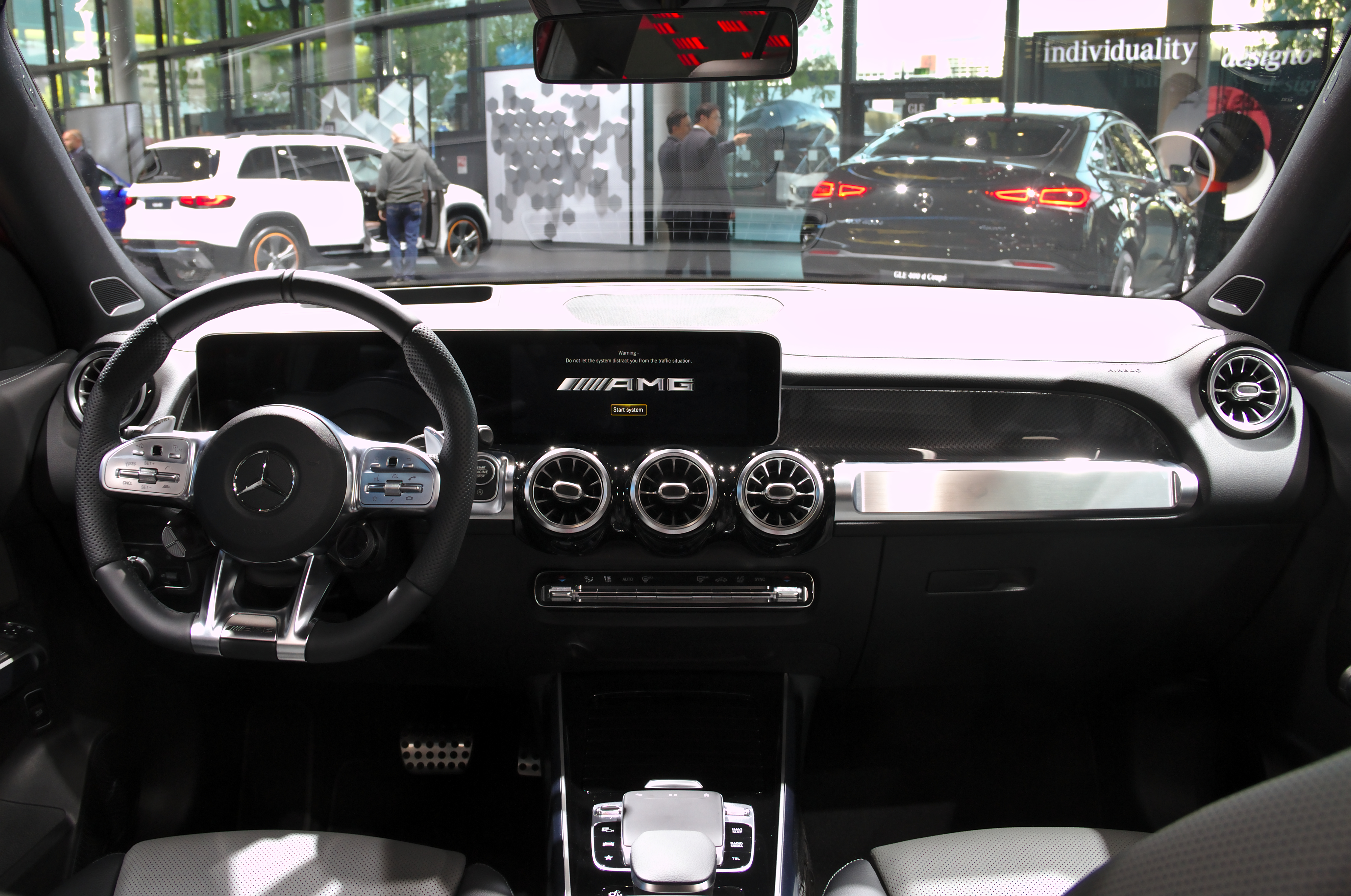 Mercedes-AMG_GLB_35_4MATIC_(X247) at IAA 2019